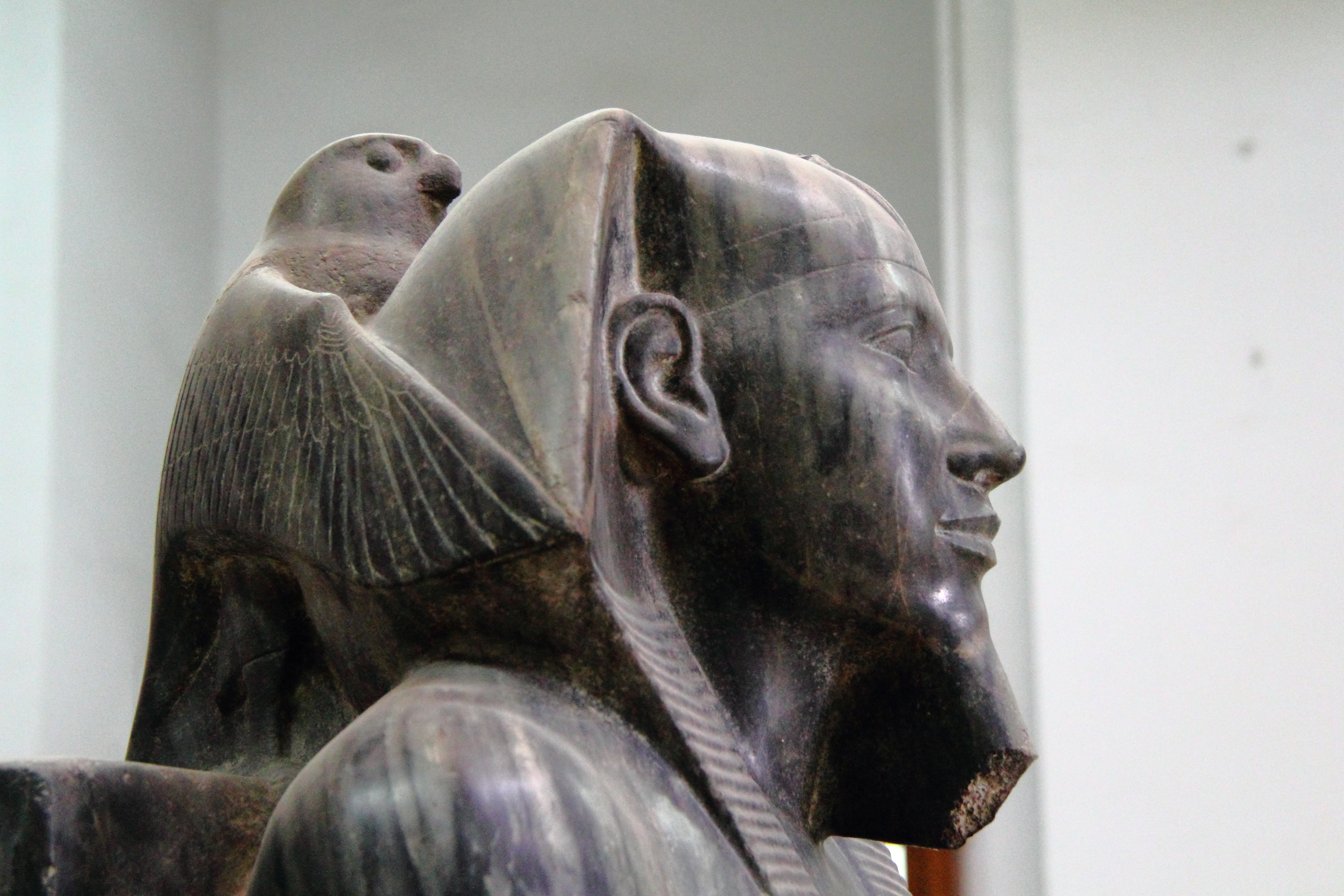 Egyptian Museum, Cairo: statue of king Khafre Enthroned, 4th Dynasty, Old Kingdom of Egypt